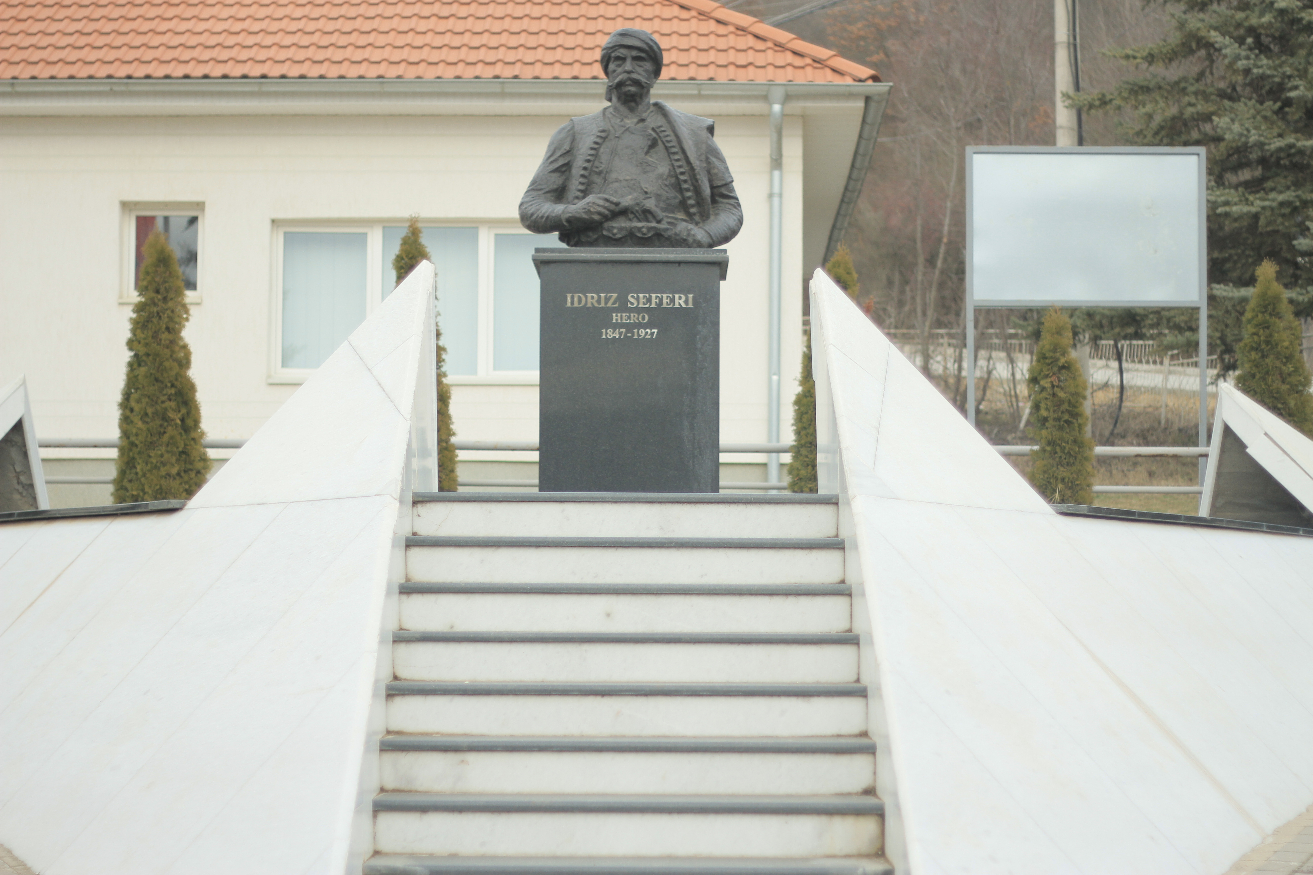 Bust of hero Idriz Seferi in Gjilan